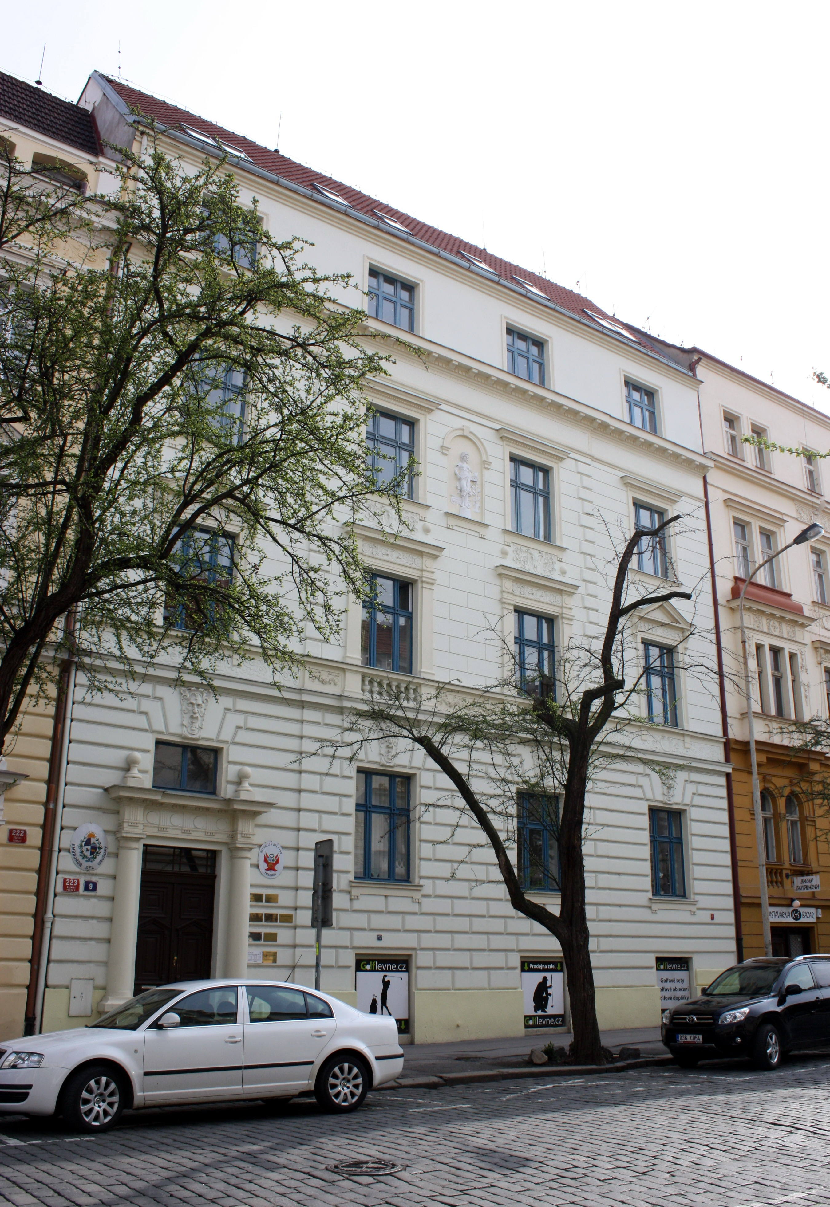 Muchova street No. 9, Prague 6 - Dejvice, Seat of Embassies of Peru and Uruguay.